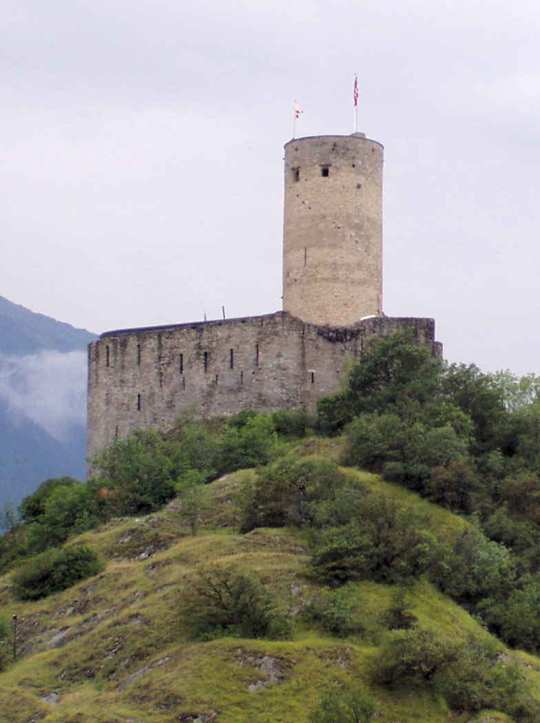 Château de la Bâtiaz in Martigny, Switzerland.